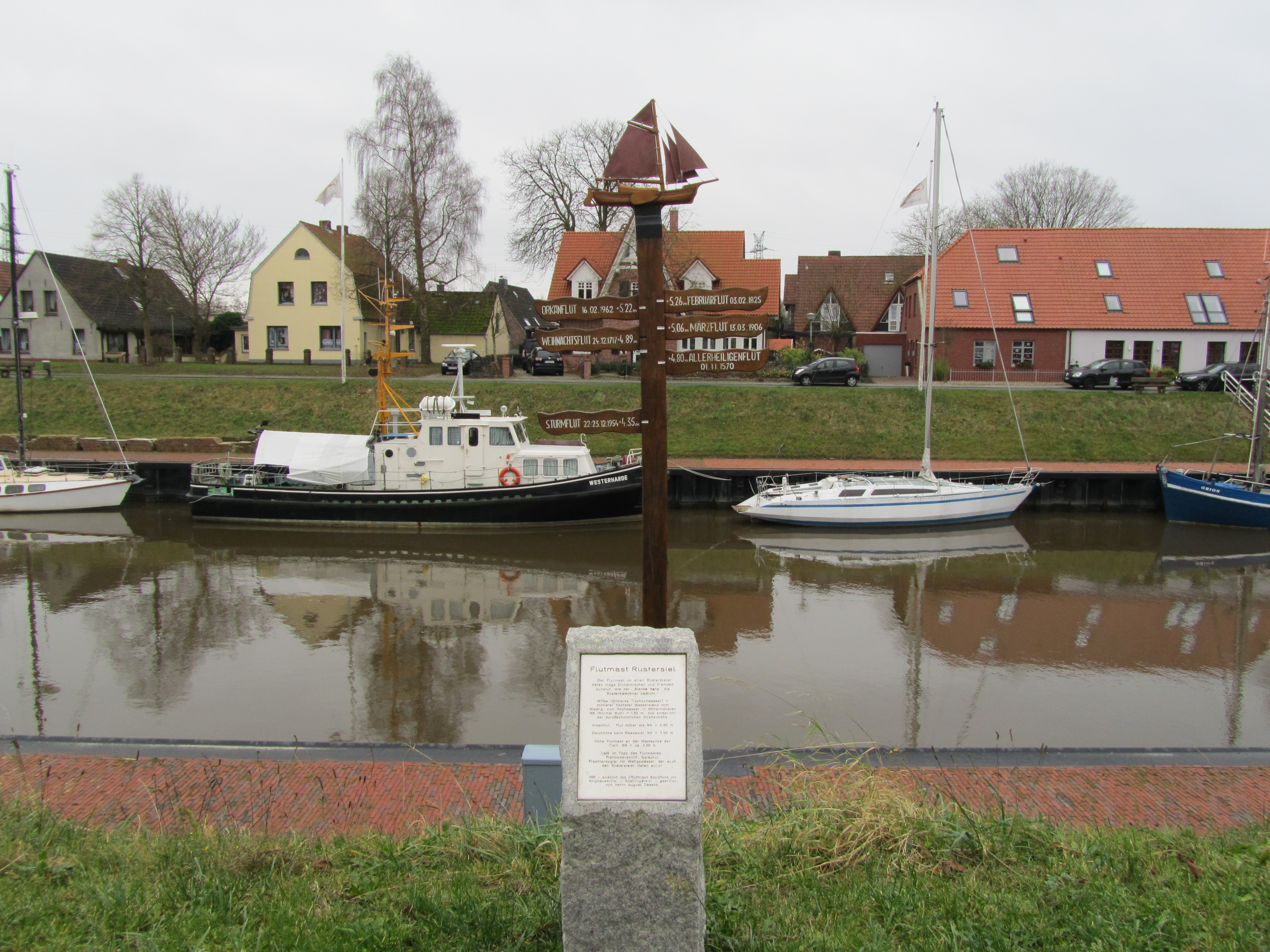 Rüstersiel harbour, Wilhelmshaven, Germany.